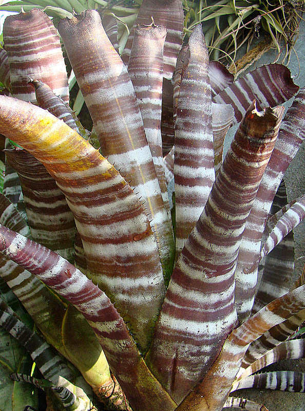 The Amazon Zebra Plant is native to the lowlands of Ecuador and adjacent parts of Colombia and Peru. The striking leaves have made it popular in gardens, such as here at Denver Botanical.